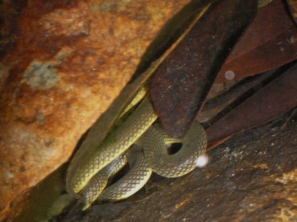 Taken at Ngong Ping, Lantau, there were two and they were very into each other. It's not a great shot, but they wouldn't keep still...